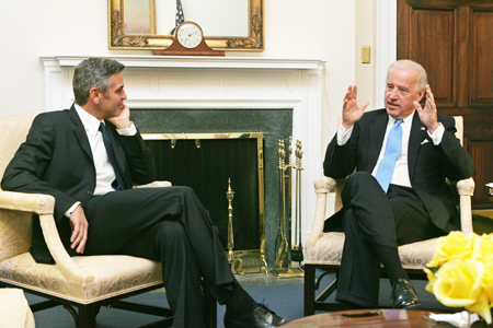 Joe Biden meets George Clooney about Darfur.